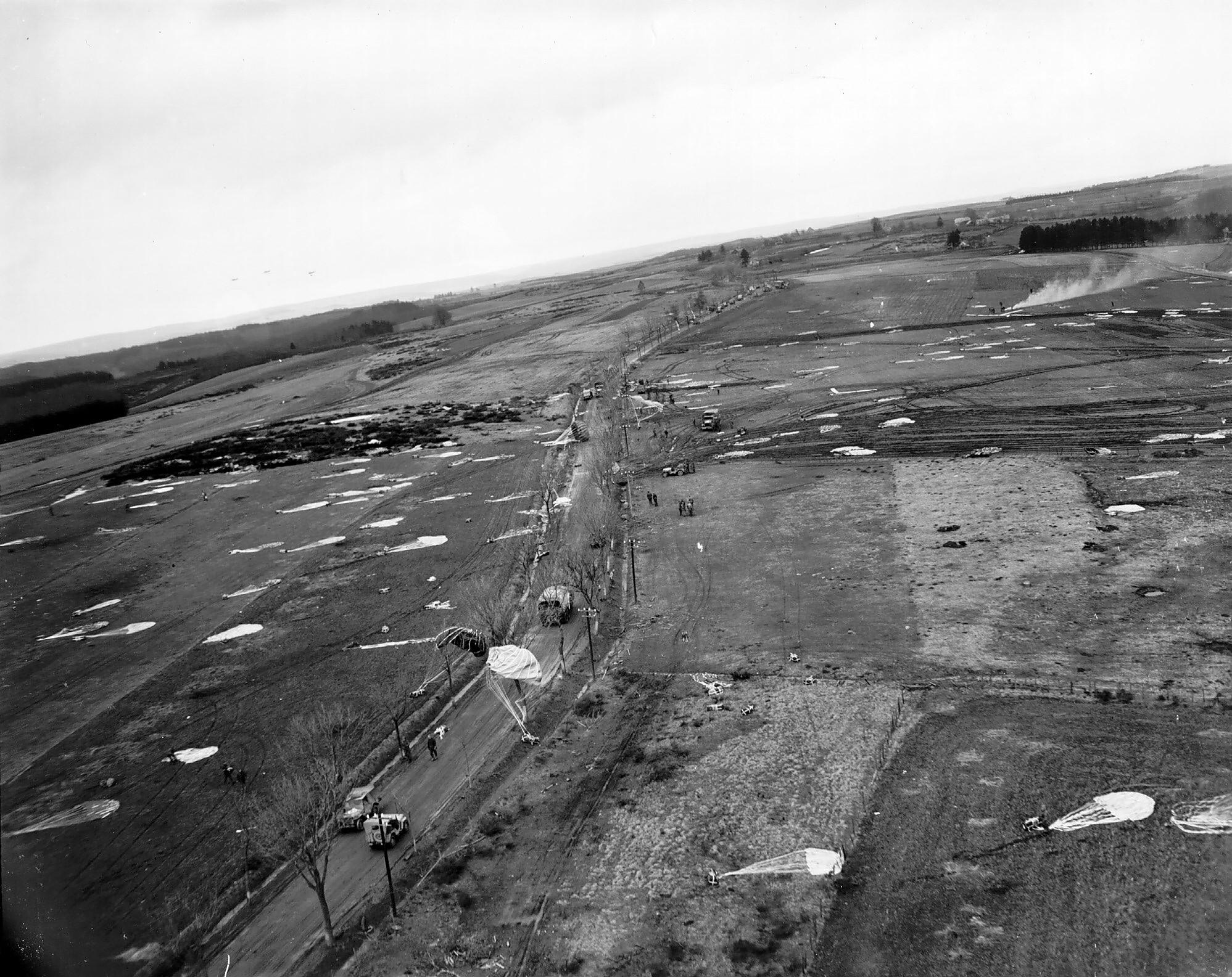 Briealf, Germany - C-47s of the 101st Airborne Division drop supplies on the 4th Infantry Division Sector. This became necessary when rains and early thaw made roads impassable in this area. The supplies consisted of rations, gas, and ammunition.